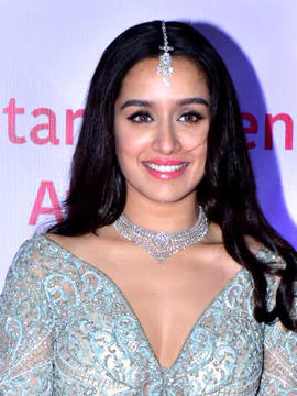 Shraddha Kapoor graces the Star Screen Awards 2018